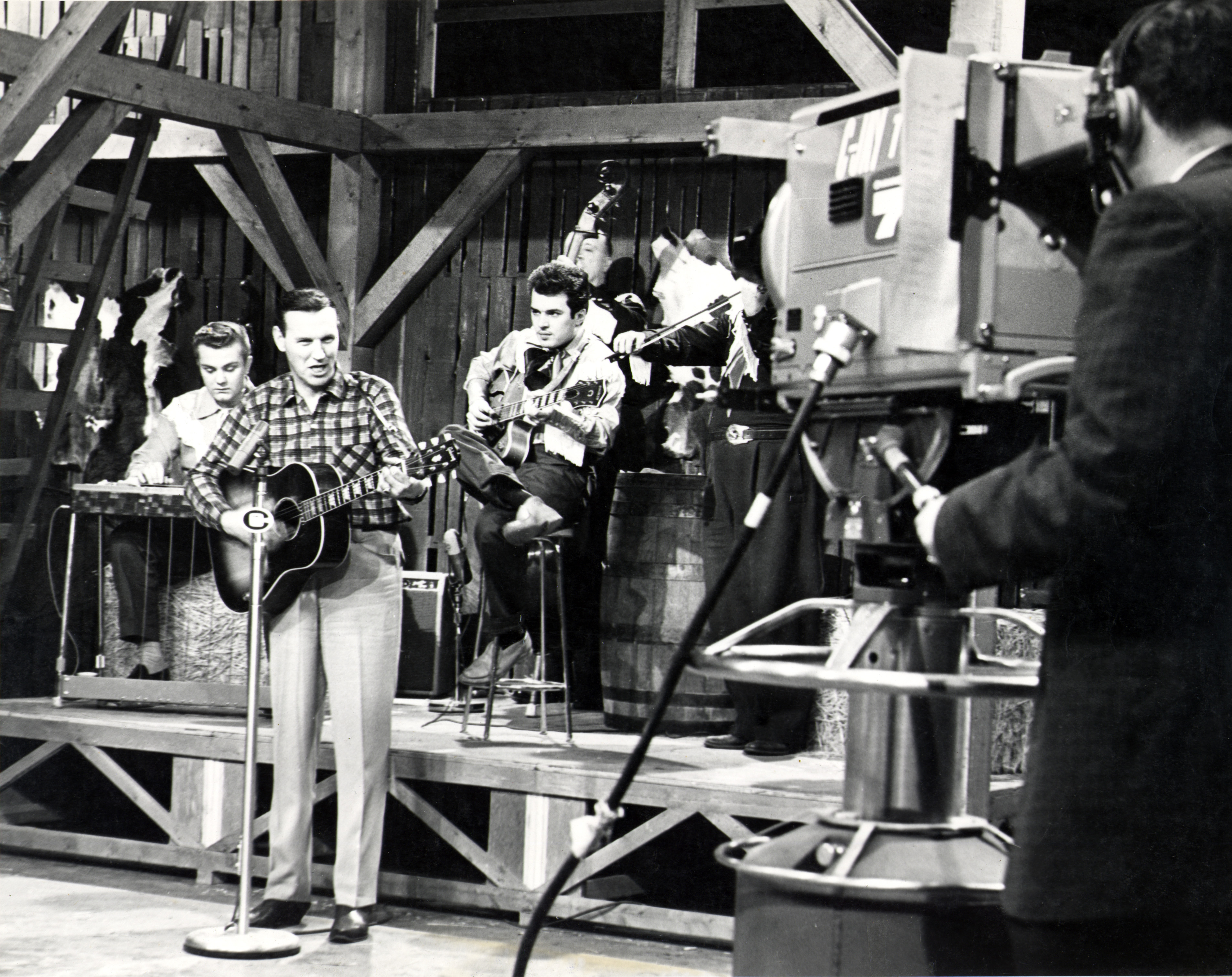 1962 B&W photograph of Donn Reynolds performing on the television set of Cross Canada Barn Dance.